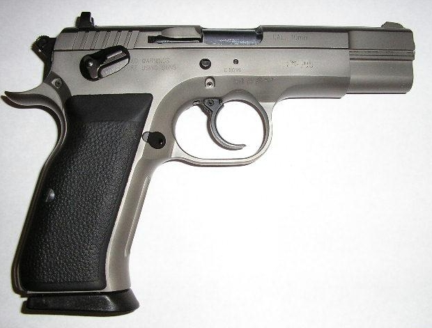 My Tanfoglio T95 Combat pistol (EAA Witness in the USA), full size, steel frame, Wonder finish 10mm Auto pistol.